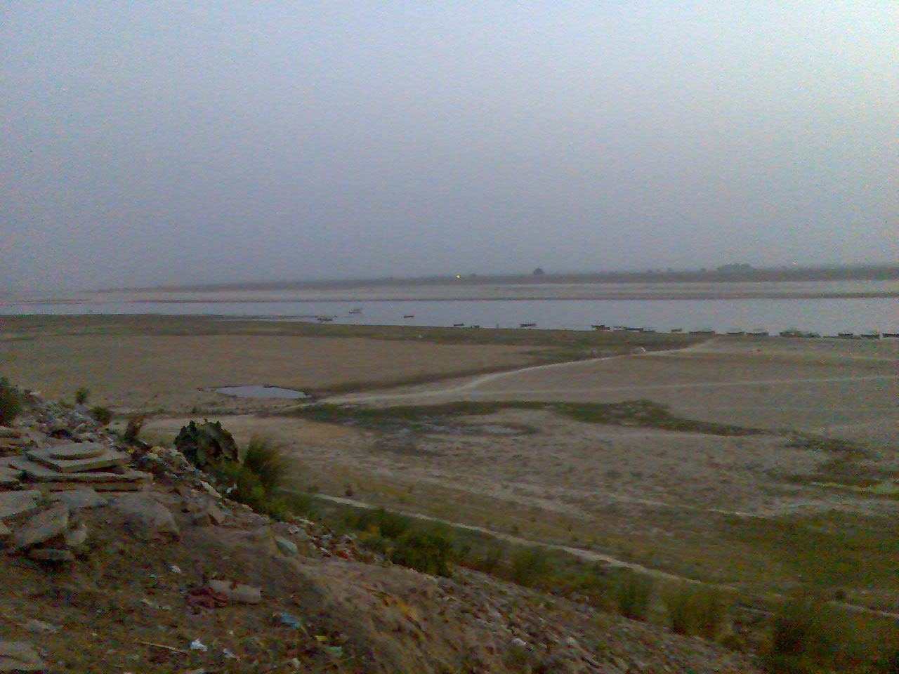 View of River Ganges, Vindhyachal, Uttar Pradesh